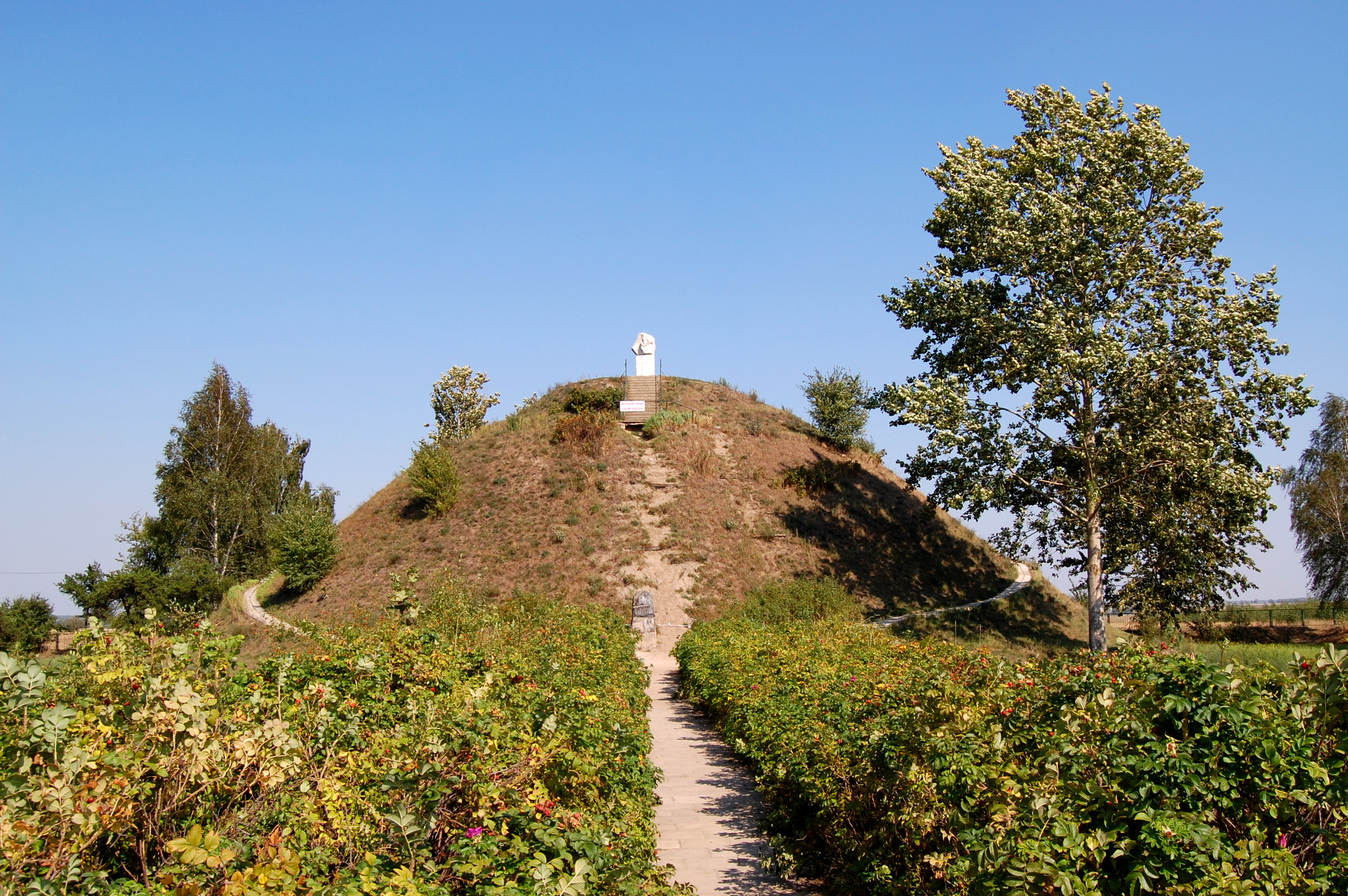 Henryk Sienkiewicz Mound in Okrzeja, Lublin Voivodeship, Poland.